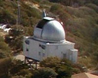 crop of Kitt Peak Panorama